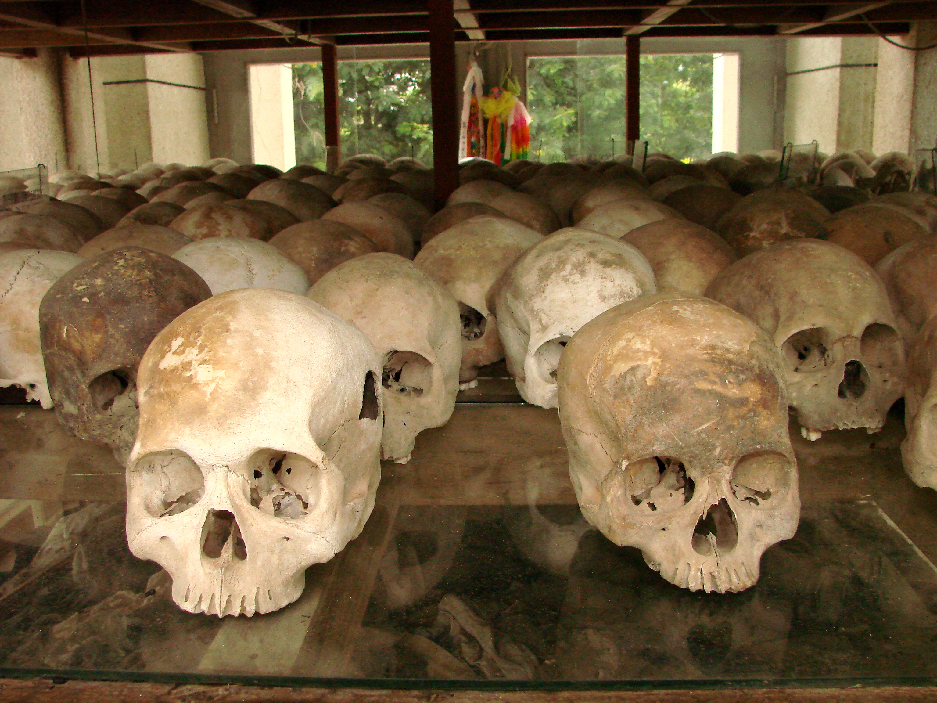 Stela of skulls, Cheung Ek Killing Fields site, near Phnom Penh, Cambodia. May 2009.